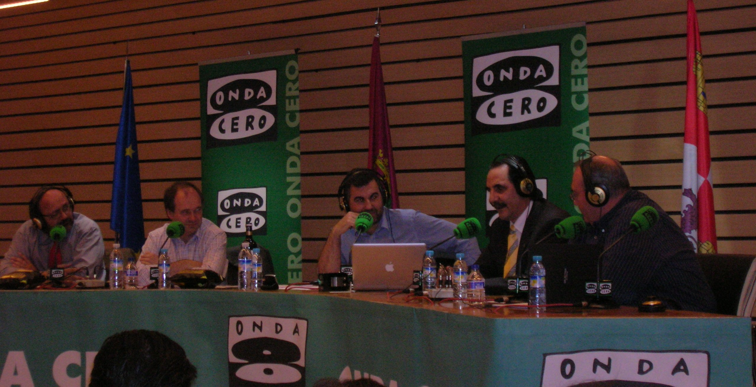 La Brujula de la Economía in Valladolid city